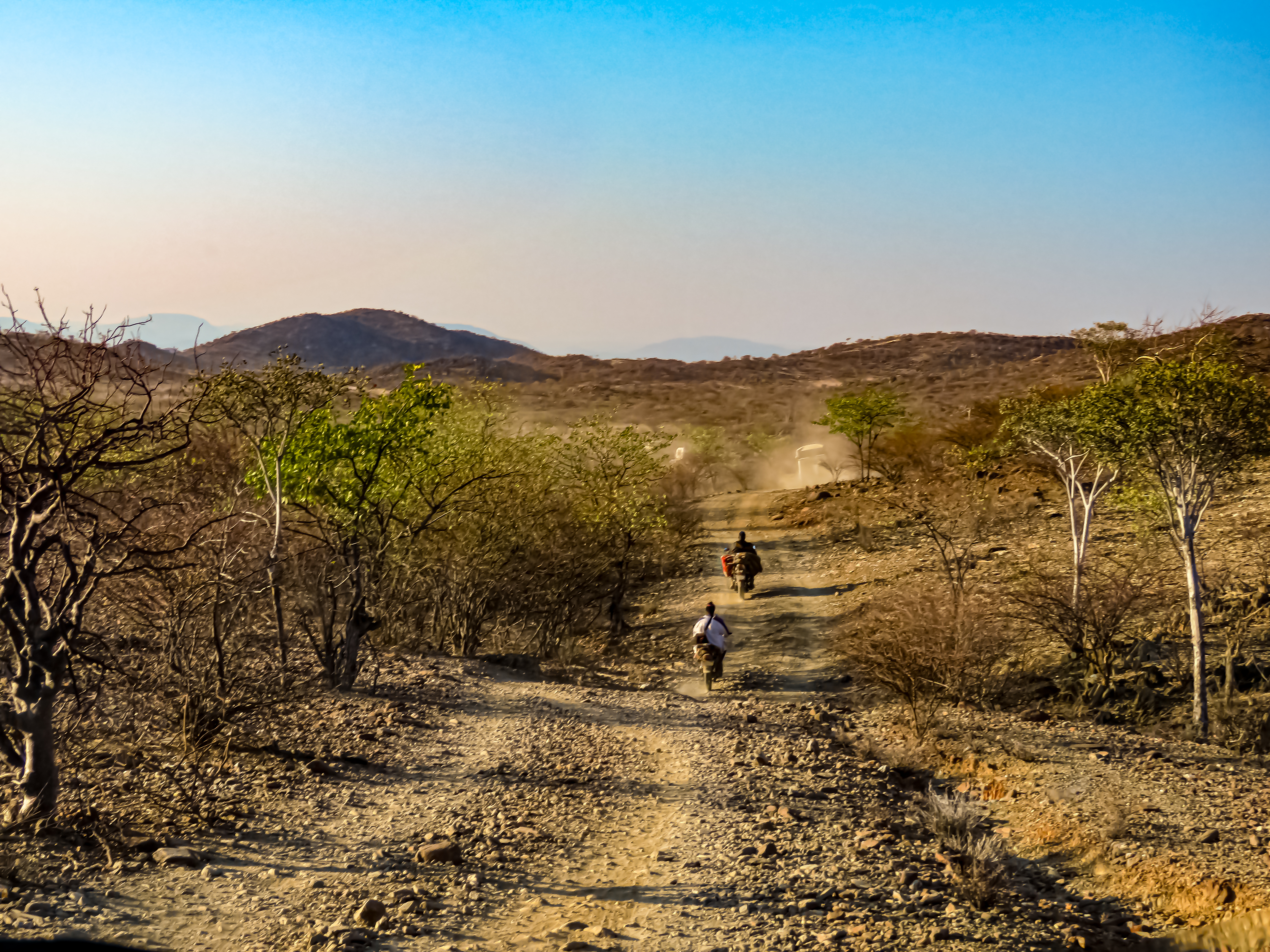 Horsemen riding north of Parque do lona This is an image with the theme "Africa on the Move or Transport" from: Angola